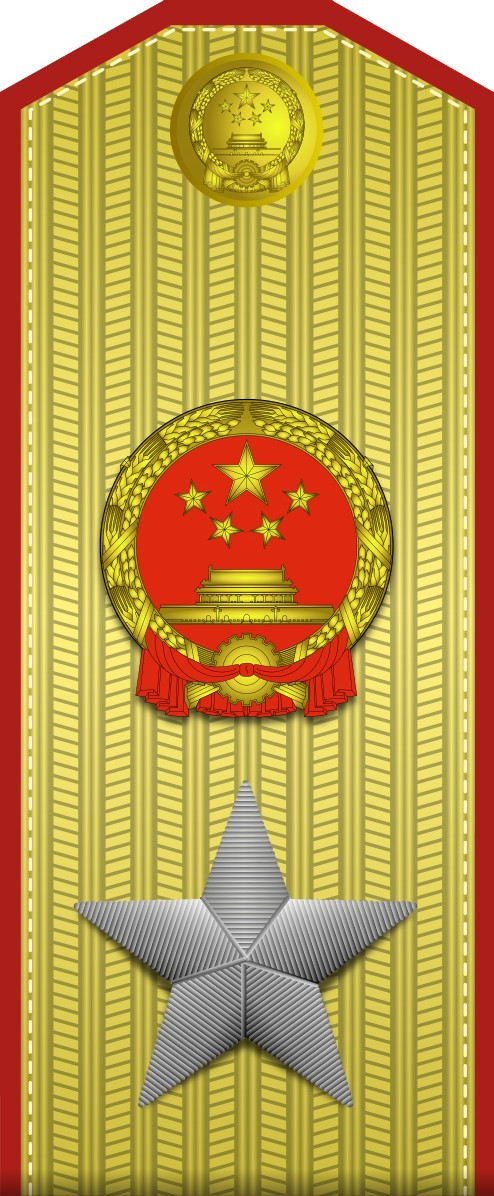 PRC marshal's epaulet